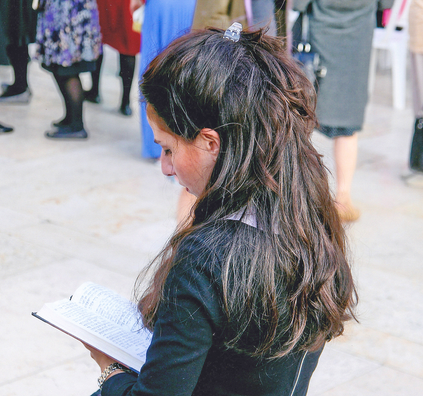 Jewish woman reading at the western wall in Jeruzalem